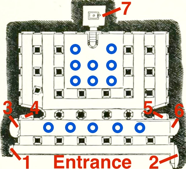 The layout of the largest and most intricately carved Hindu cave temple at Badami, Karnataka 1: Vishnu 2: Trivikrama (Vishnu taking a giant step, 3-steps Vedic legend) 3: Vishnu on sesha naga 4: Vishnu avatar Varaha rescuing goddess earth (Bhudevi) 5: Harihara (half Shiva, half Vishnu) 6: Vishnu avatar Narasimha standing 7: Garbha ghriya (sacrum sanctum, image is missing) Blue O: ceiling carvings of Vedic and Puranic Hindu gods and goddesses (e.g. Indra, Agni, Varuna, Brahma, Vishnu, Shiva, Saraswati, Lakshmi, Parvati, etc) Enclosed squares: carved pillars showing social life, couples or individual women with various expressions, as well as amorous couples in courtship and mithuna. One carving shows a collapsing suffering woman being helped and raised by Vishnu. A derivative work on Plan of Badami Cave.jpg available under creative commons license from wikimedia commons.